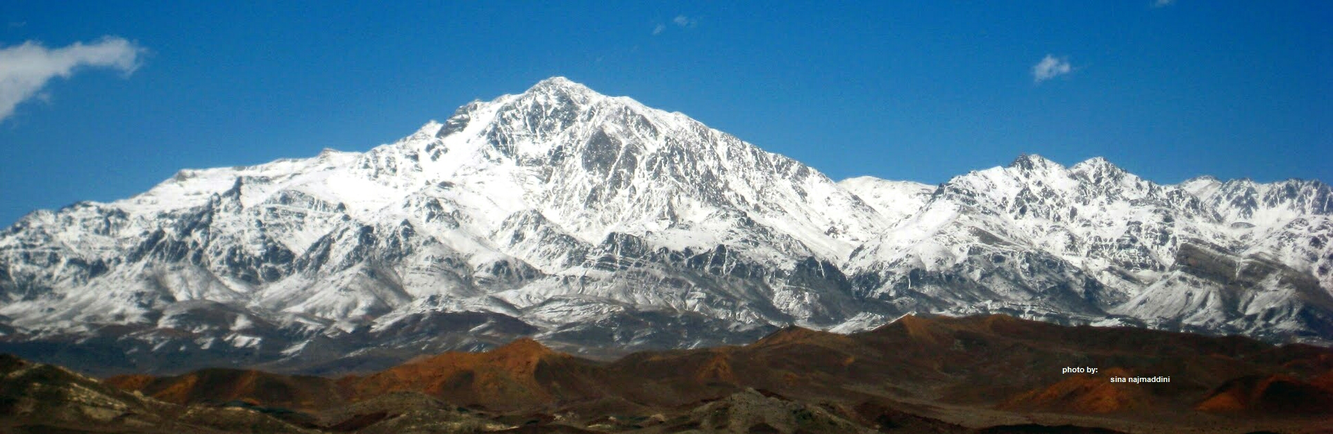 کوه شاه در زمستان